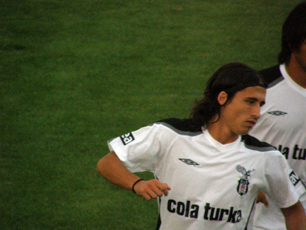 Serdar Özkan during Beşiktaş-Khazar Lankeran match, 16.08.2008.